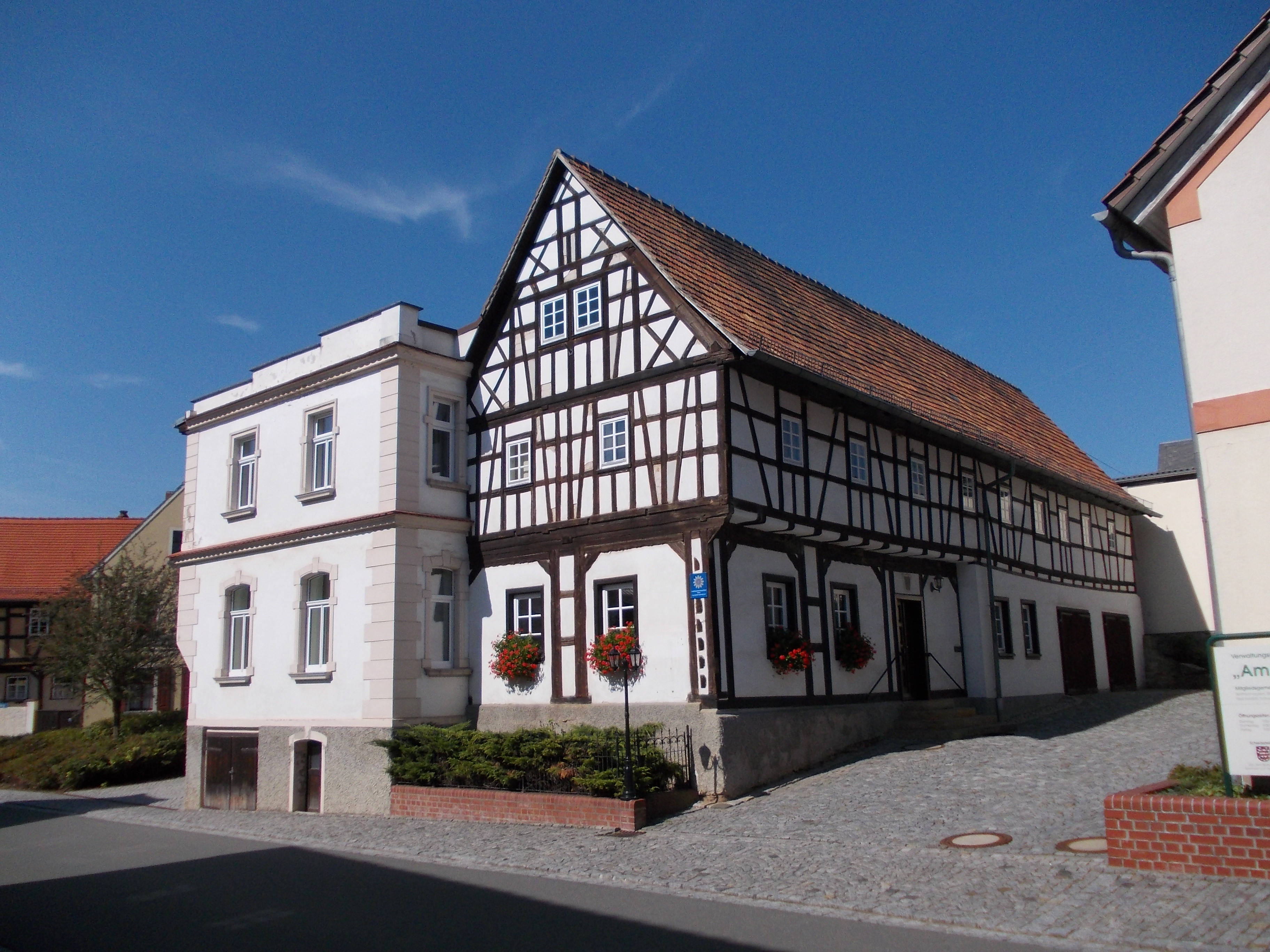 Municipal offices at Dorfstrasse in Grossenstein (Greiz district, Thuringia)